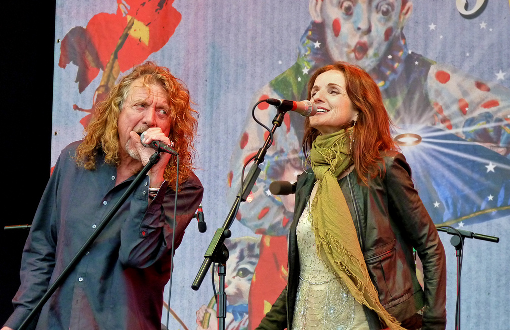 Robert Plant and Patty Griffin of Band of Joy performing live 7th August 2011.